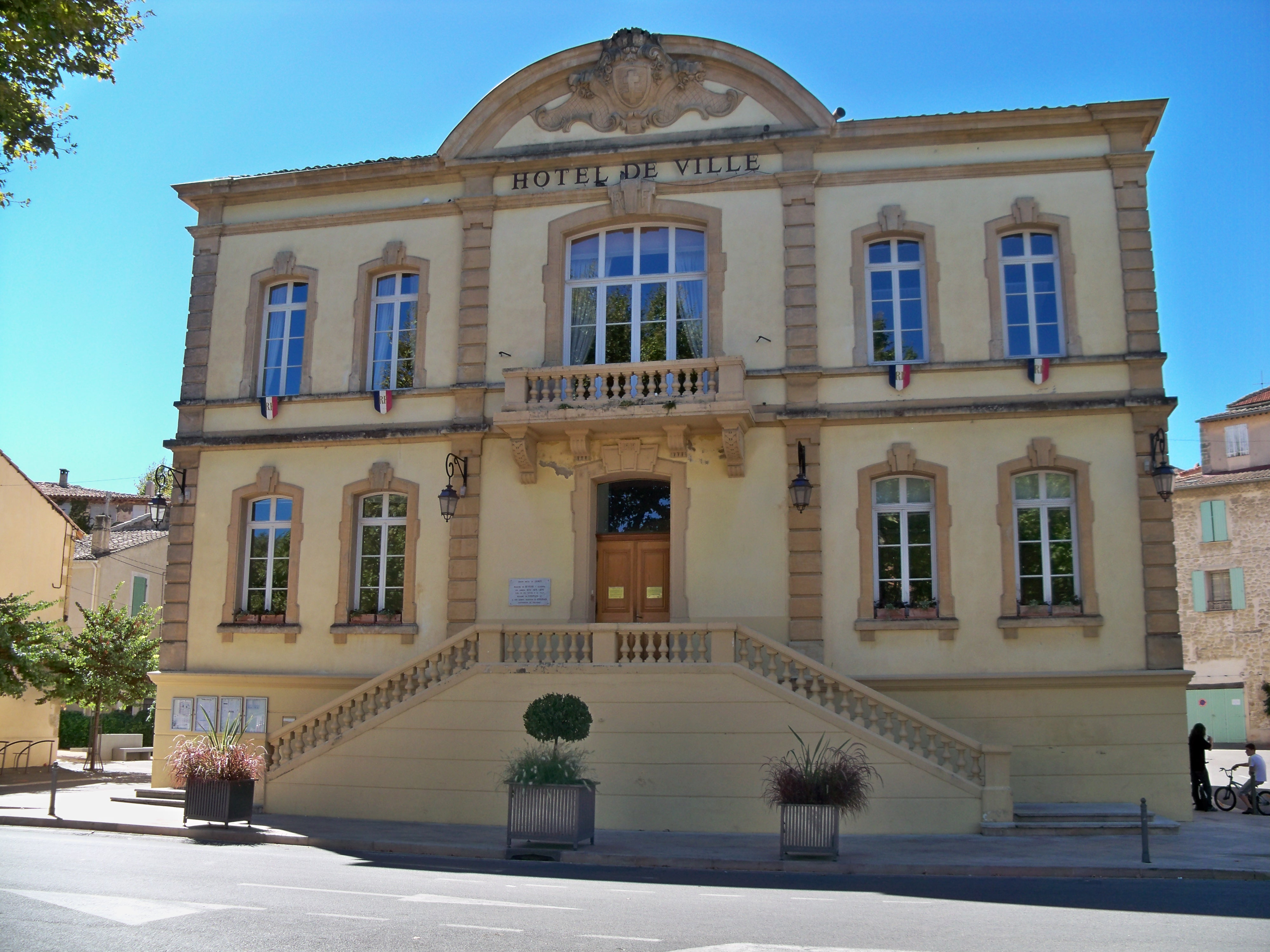 Town hall of Lambesc, Bouches-du-Rhône, France.